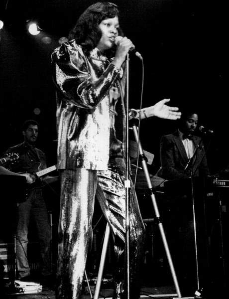 American singer Alisa Peoples from the R&B/soul music duo Yarbrough and Peoples in Paris, France